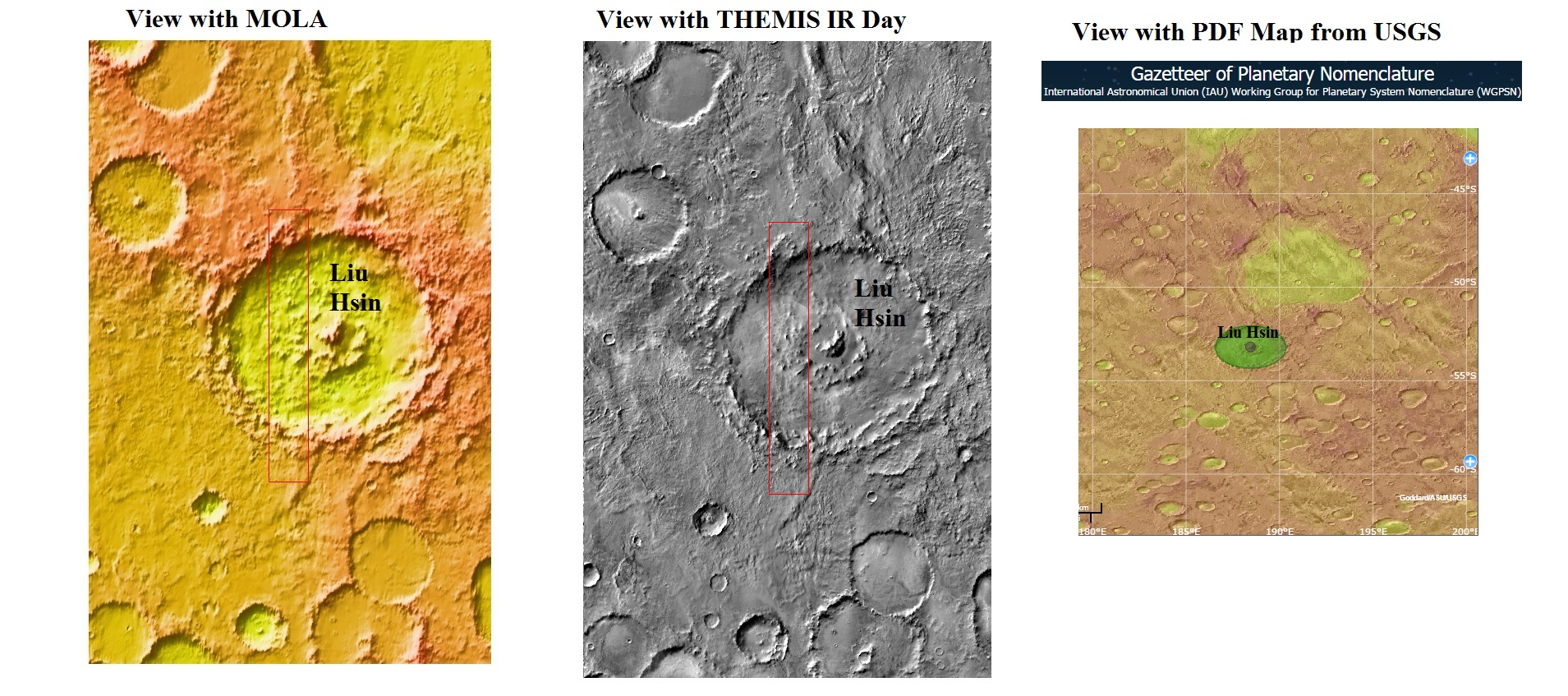 Liu Hsin Crater, as seen with MOLA, THEMIS IR Day, and a map from International Liu Hsin Crater, as seen by MOLA, THEMIS IR Day, and International Astronomical Union Working Group (